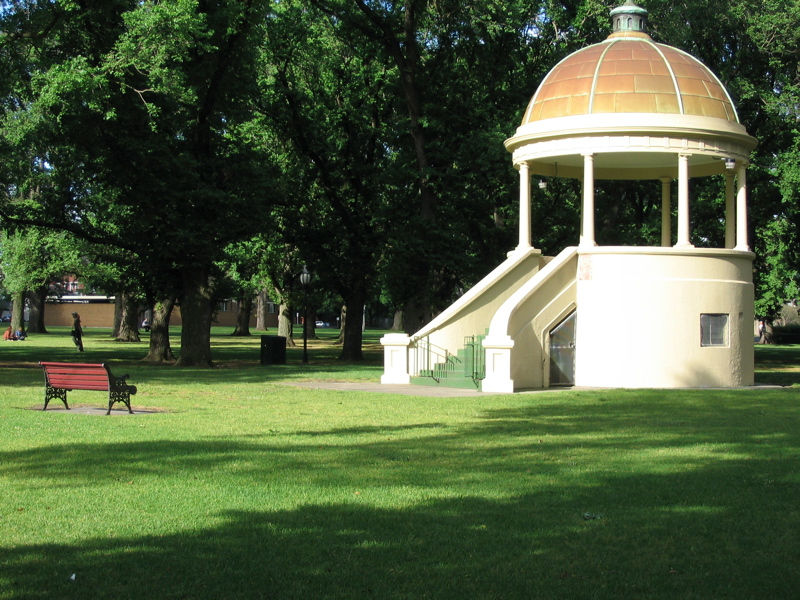 Fitzroy Memorial Rotunda, erected in en:1925 by the Fitzroy City Council, and the Peace Year Citizens Committee, in honour of those Fitzroy residents who died in World War I. Designed by Edward Twentyman, and built by local unemployed workers. Located in Edinburgh Gardens, Fitzroy North, Victoria, Australia.